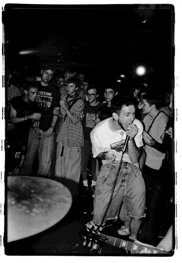 Indianapolis Fest 1996 Photo: Adam Lowe